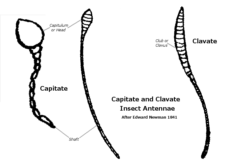 Clavate (clubbed) antennae ideally are thickened towards the distal end. Capitate antennae (having heads) have more or less abrupt thickenings at the tip. The head, or capitulum might comprise one or more segments